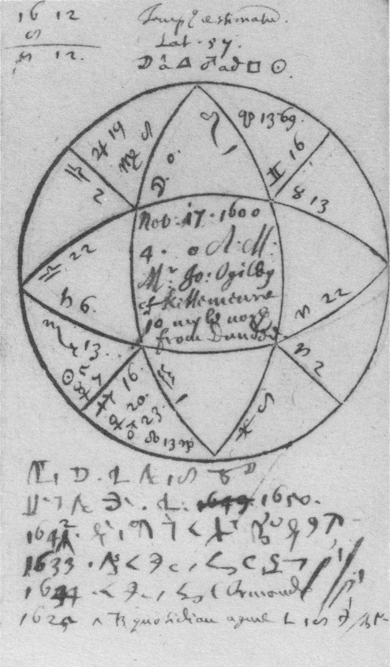 Horoscope of John Ogilby taken by Elias Ashmole